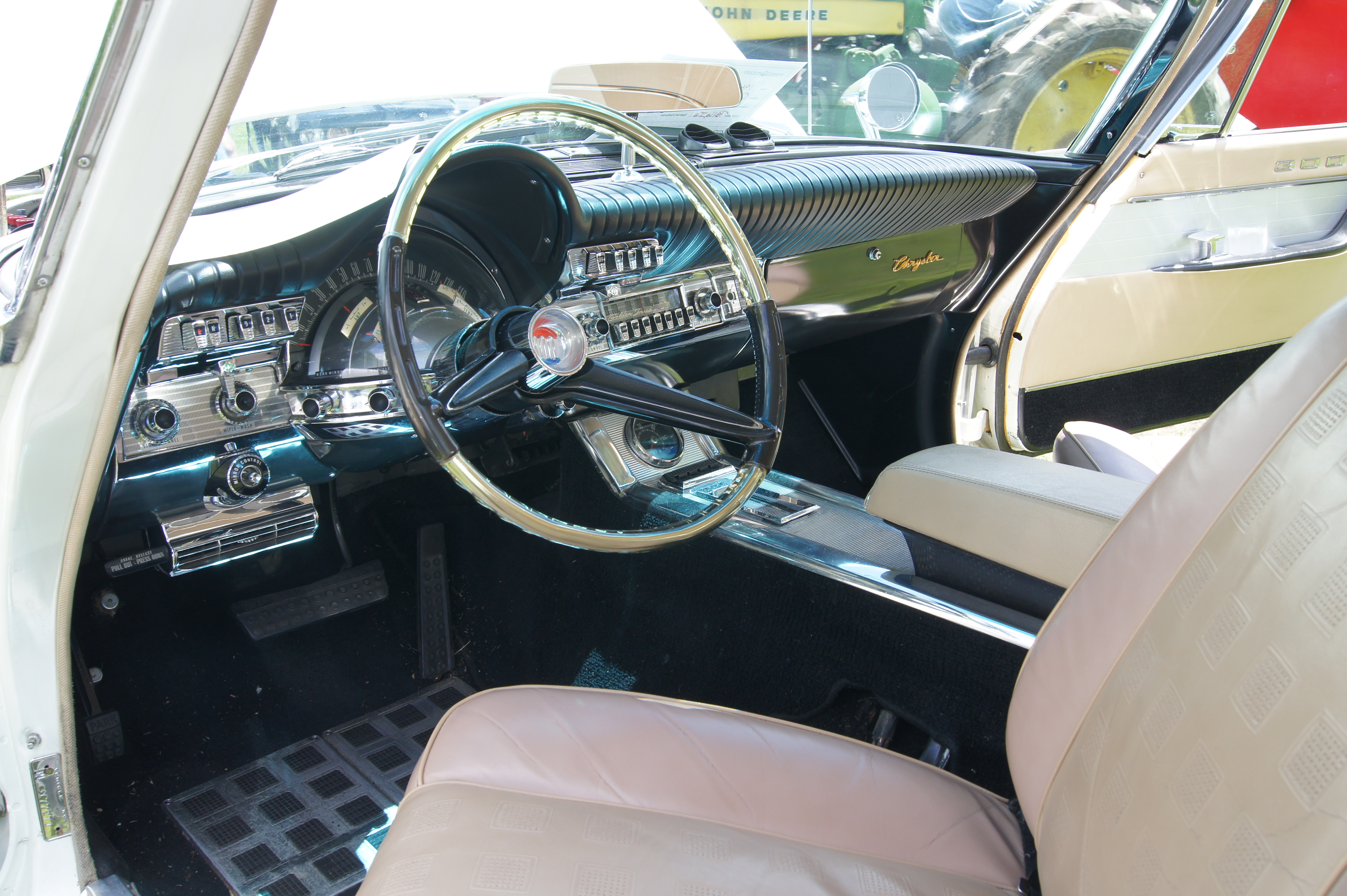 29th Annual Midwest Mopars in the Park Car Show & Swap Meet Thousands of car pictures at the link below